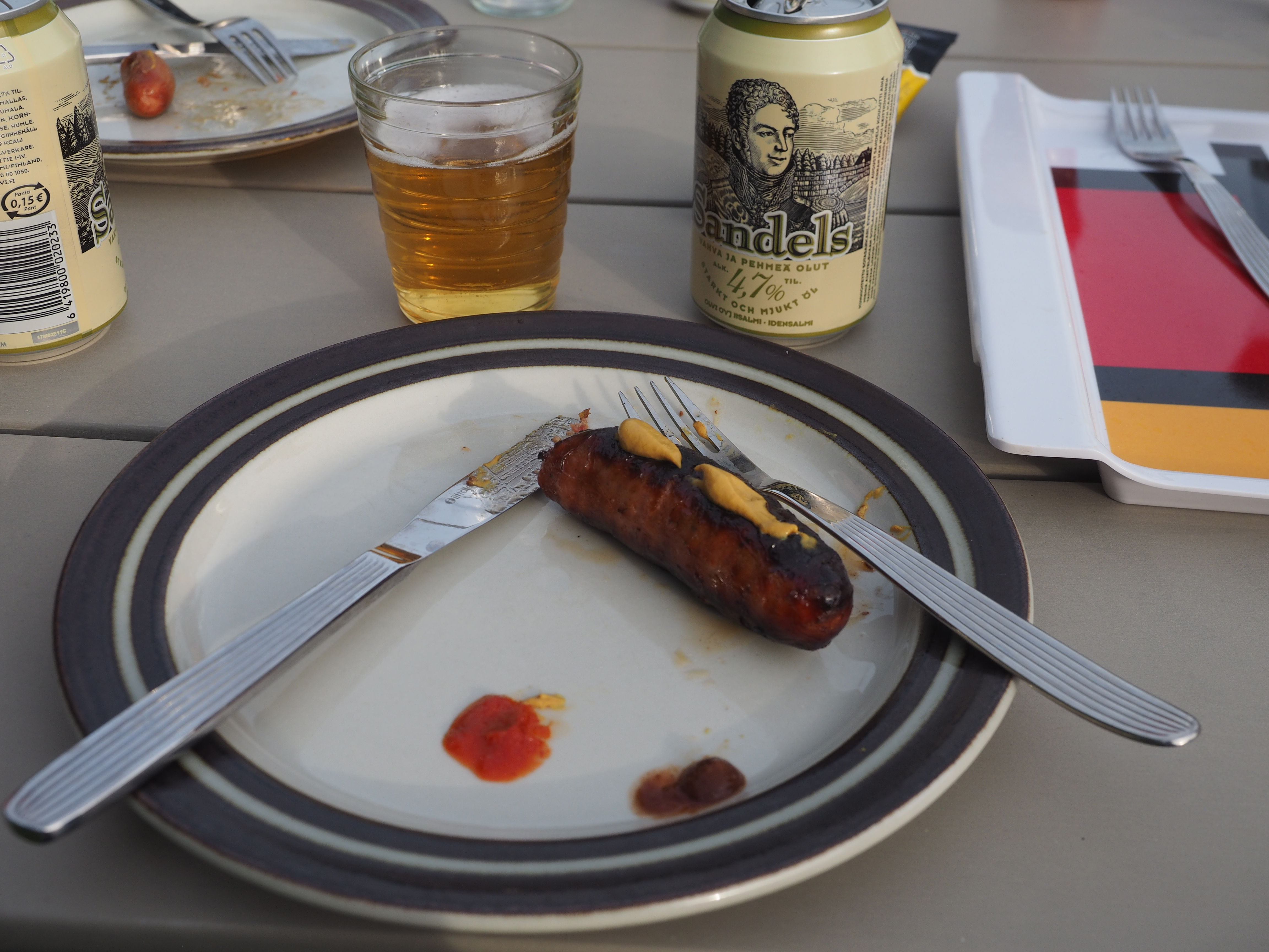 A typical Finnish summer meal: a grilled chorizo sausage and a glass of Sandels beer. The sausage is covered with Turun sinappi mustard, the bright red patch is Sriracha sauce and the dark red patch is Poppamies Smoky Reaper extremely hot chili sauce.